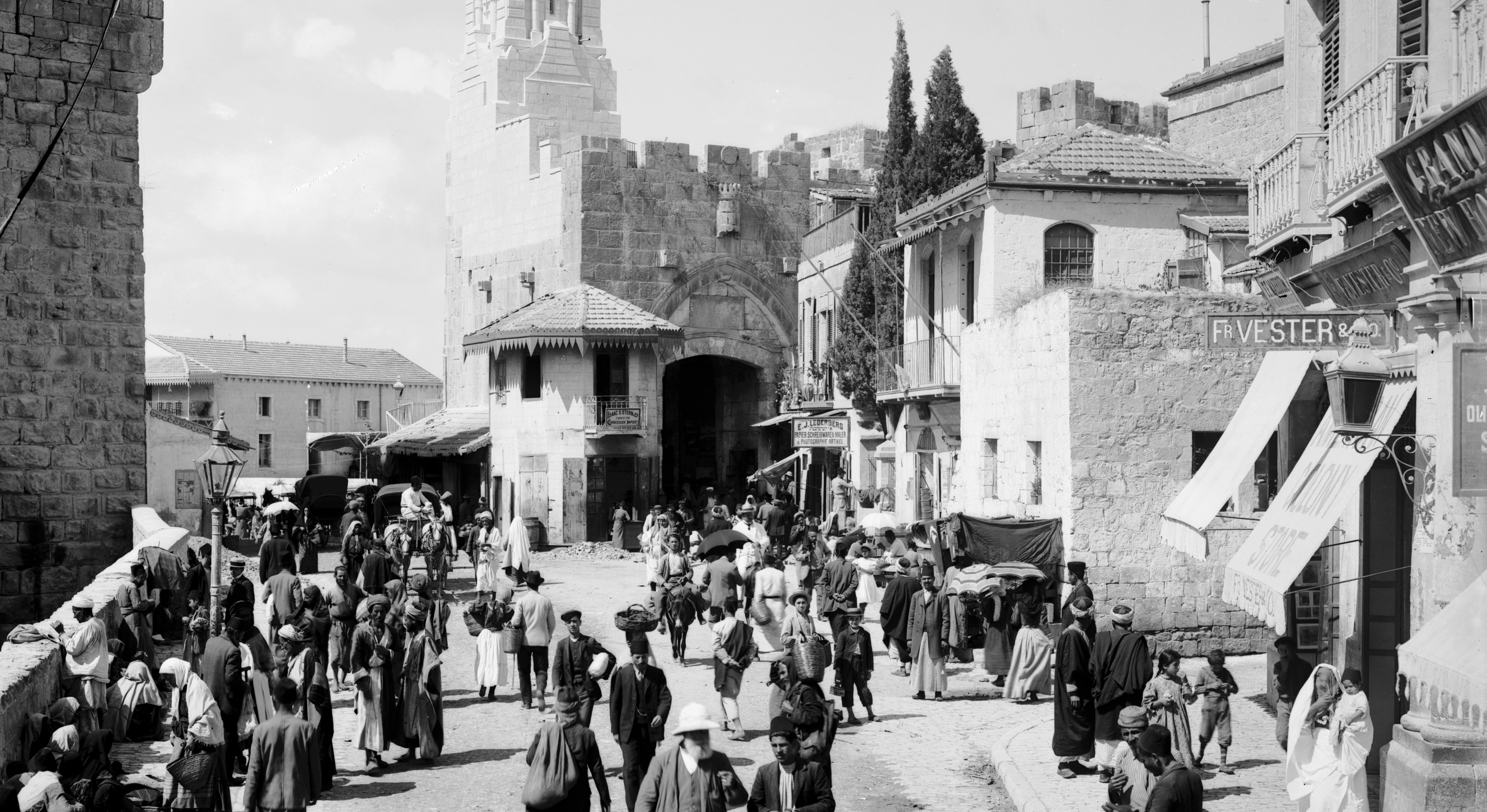 Jerusalem (El-Kouds). Street scene inside the Jaffa Gate.